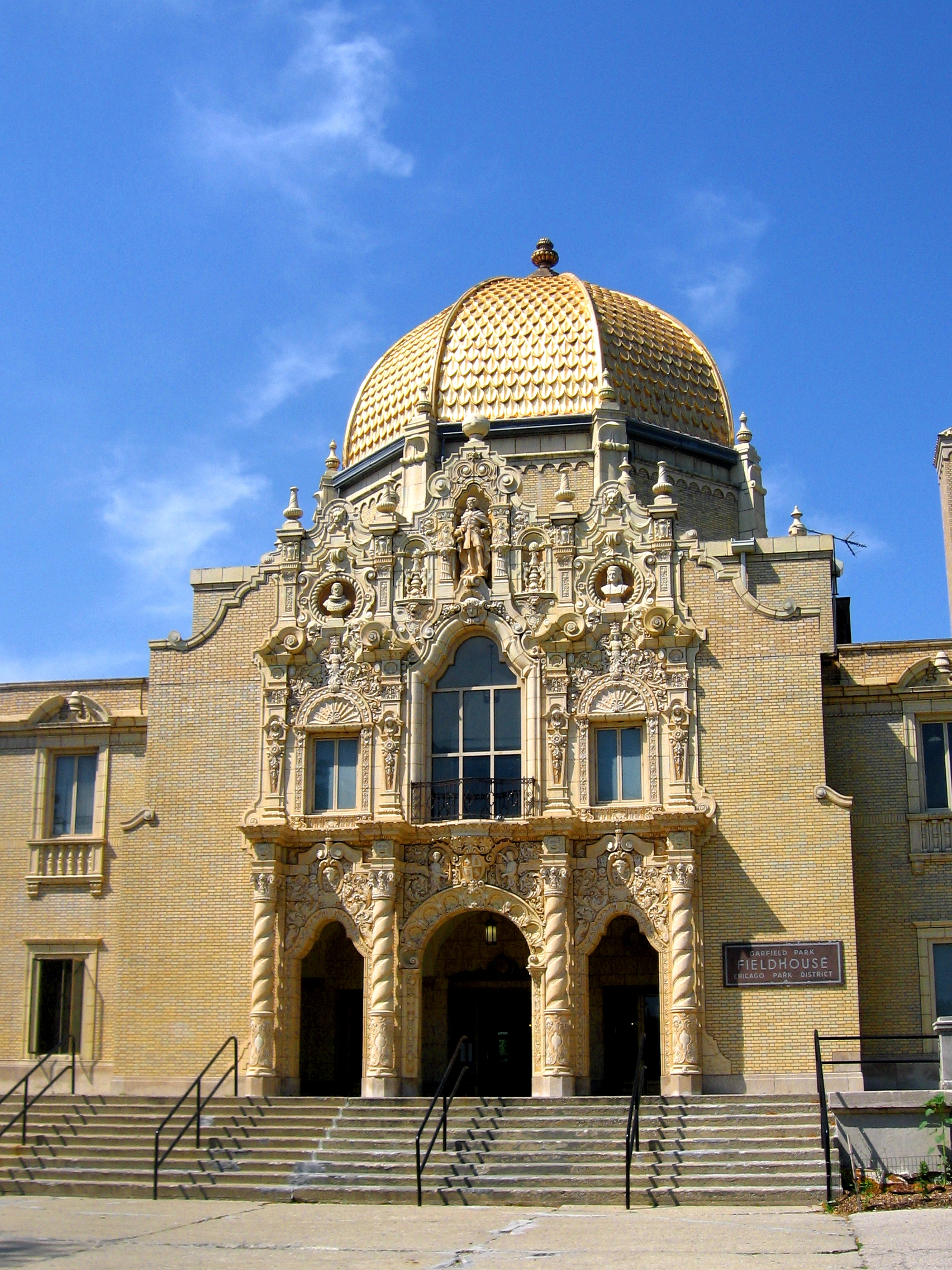 The field house in Garfield Park, Chicago